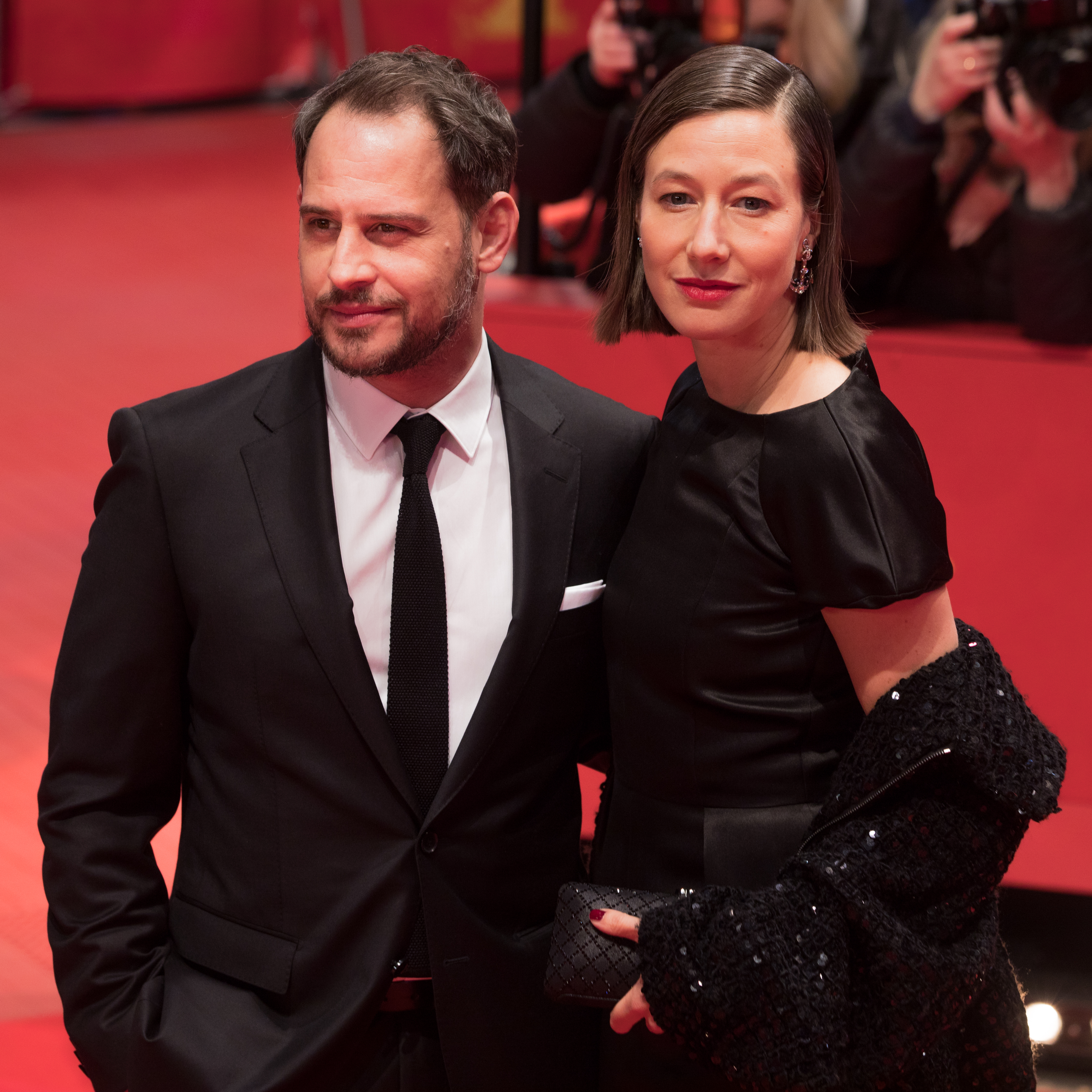 Moritz Bleibtreu and Johanna Wokalek at the opening ceremenony of the Berlinale 2018